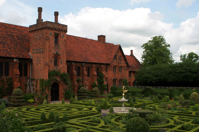 Hatfield House Old Palace 2007